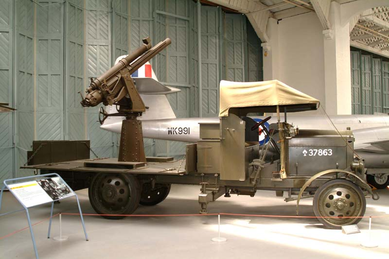 Photograph of restored British QF 13 pounder 9 cwt anti-aircraft gun, World War I vintage, on Mk III mounting on a Thornycroft Type J lorry. The lorry's sideboards are opened out into the usual position when the gun was in action, and the jacks behind the cab are extended and lowered for stability. On display at Imperial War Museum Duxford, England.